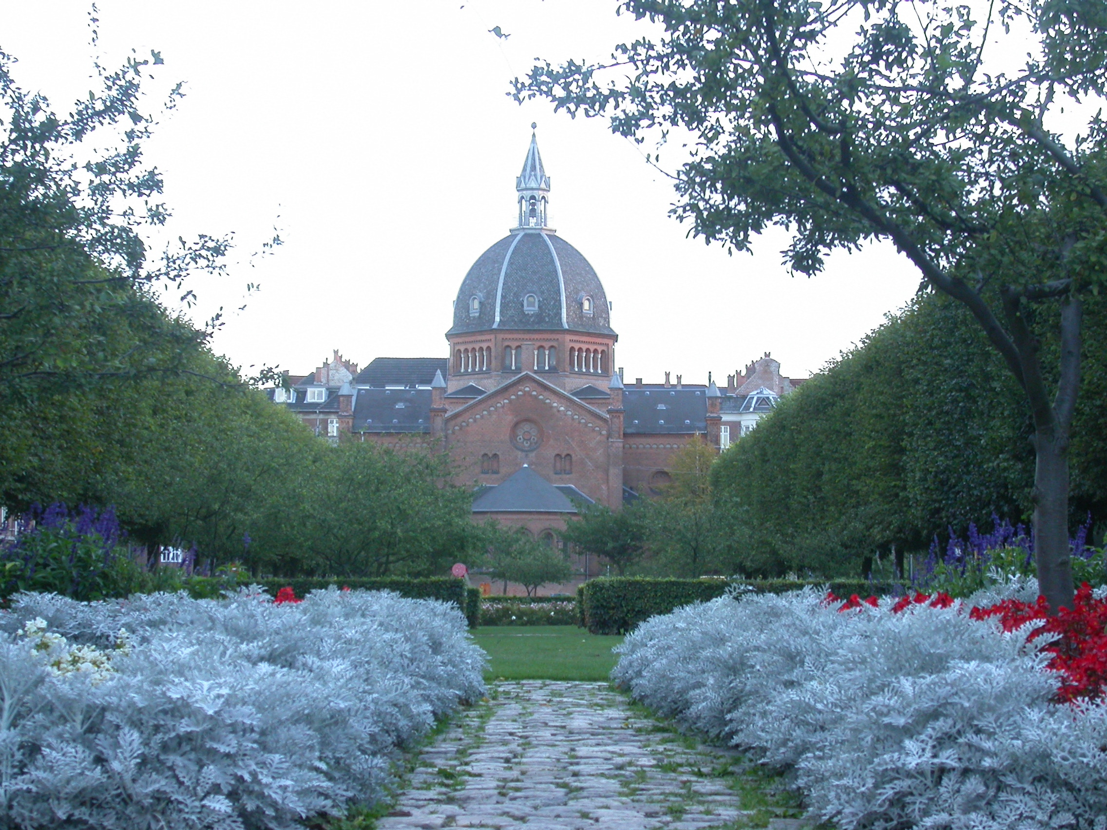 St. Mark's Church at the end of Julius Thomsens Plads in the Frederiksberg district of Copenhagen, Denmark.